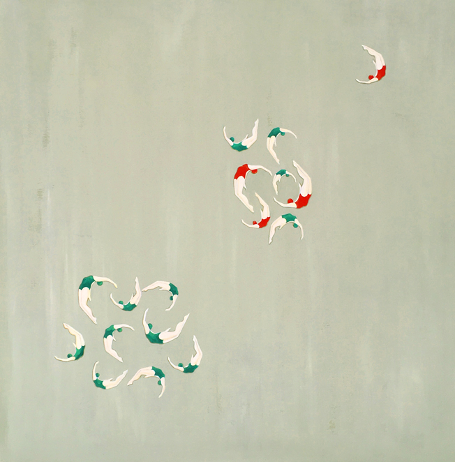 Original painting on stretched linen